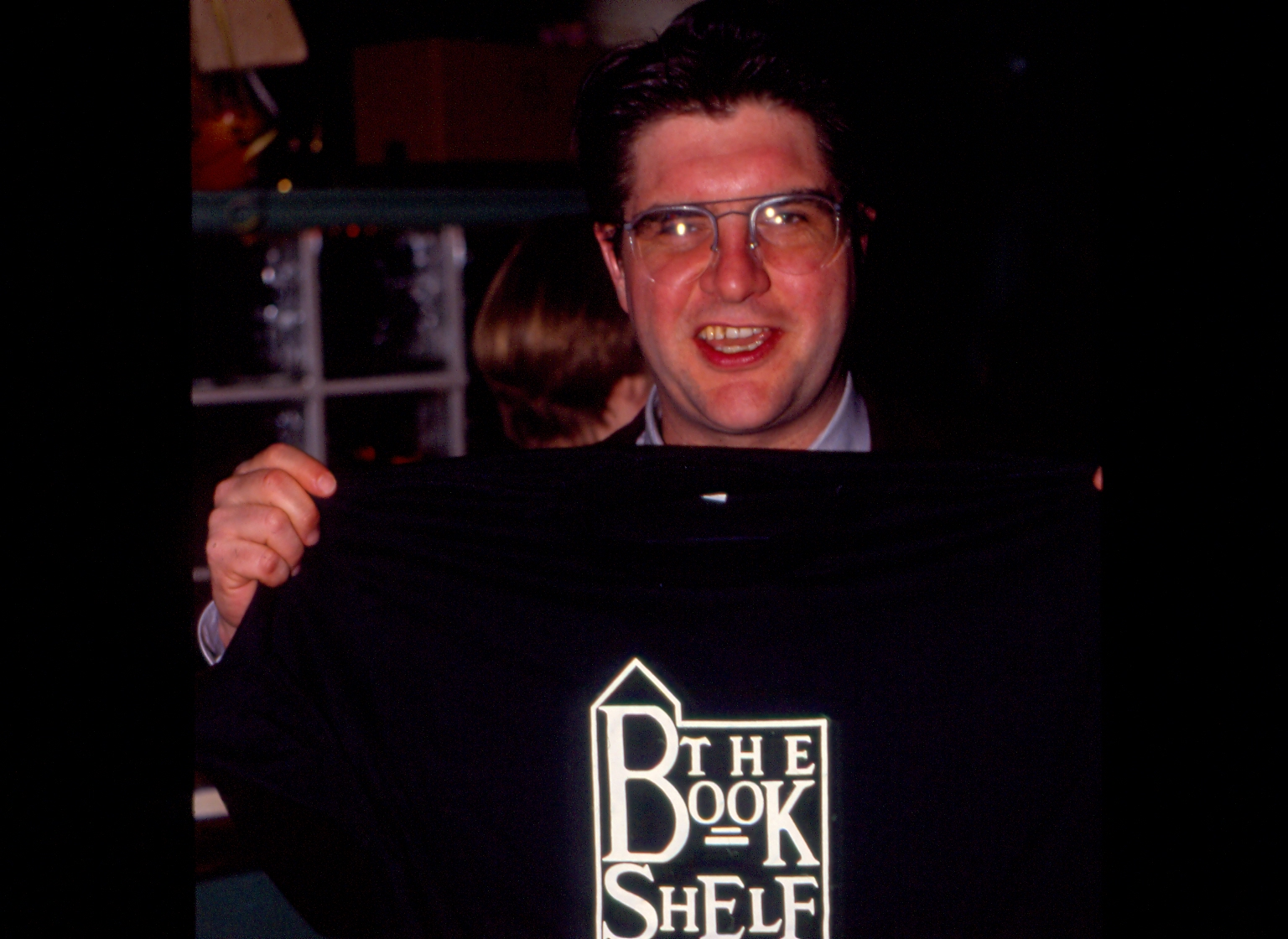 Canadian novelist Paul Quarrington, at the Bookshelf Cafe in Guelph